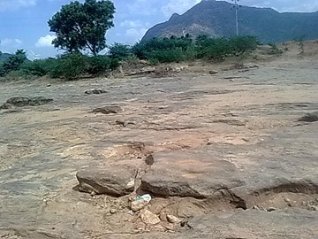 This photo taken at the tamilnadu, india one of the most famous river (vaigai) in india; which is affecting by sand mining. In this tamilnadu state rivers are used as sand mining place. This photo is taken at the vallal river is the one of the source branch river of the vaigai. What this photo says: the river sands are exported as money and the river become just a rocky land